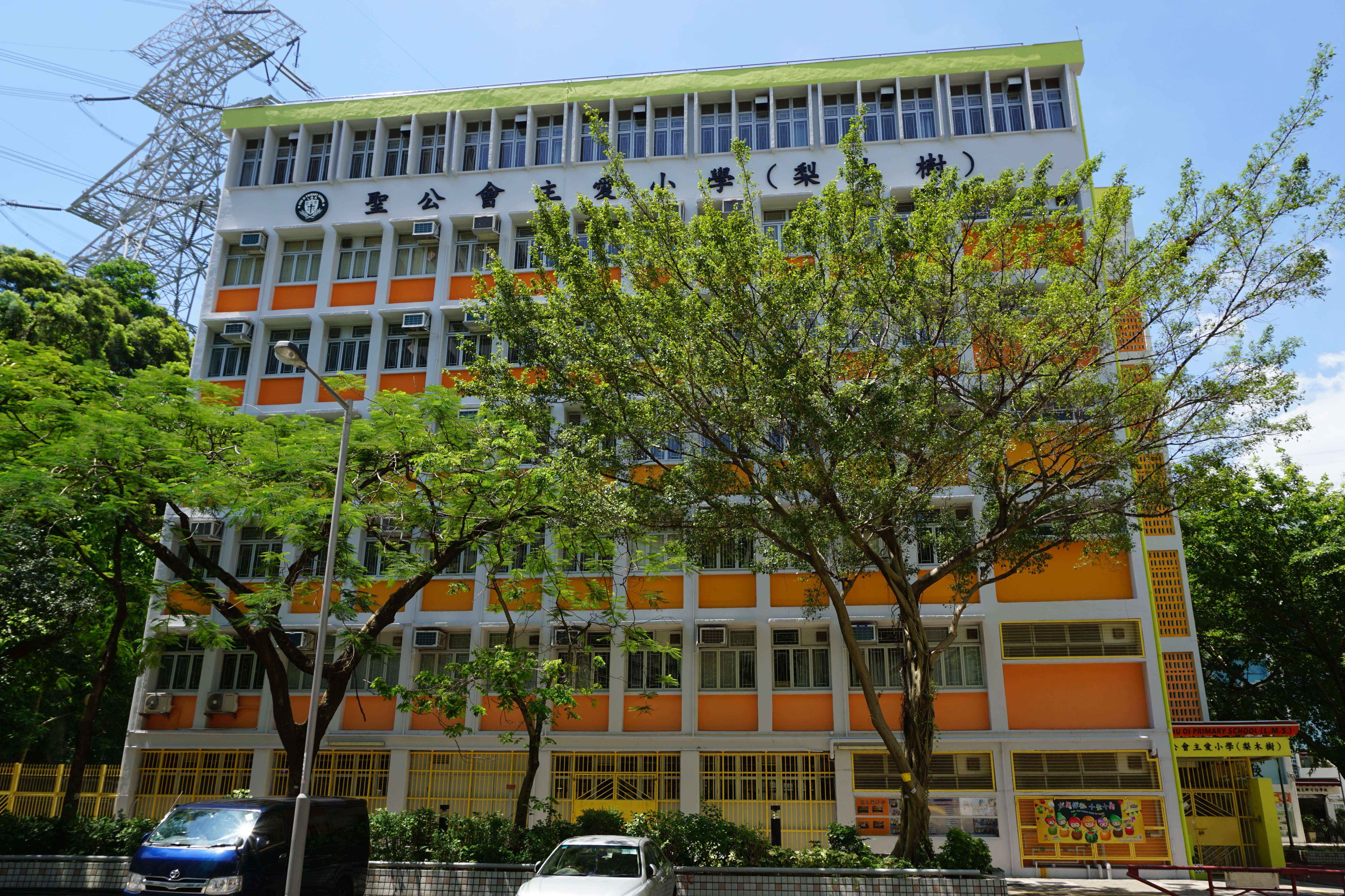 S.K.H. Chu Oi Primary School in Lei Muk Shue, Hong Kong.